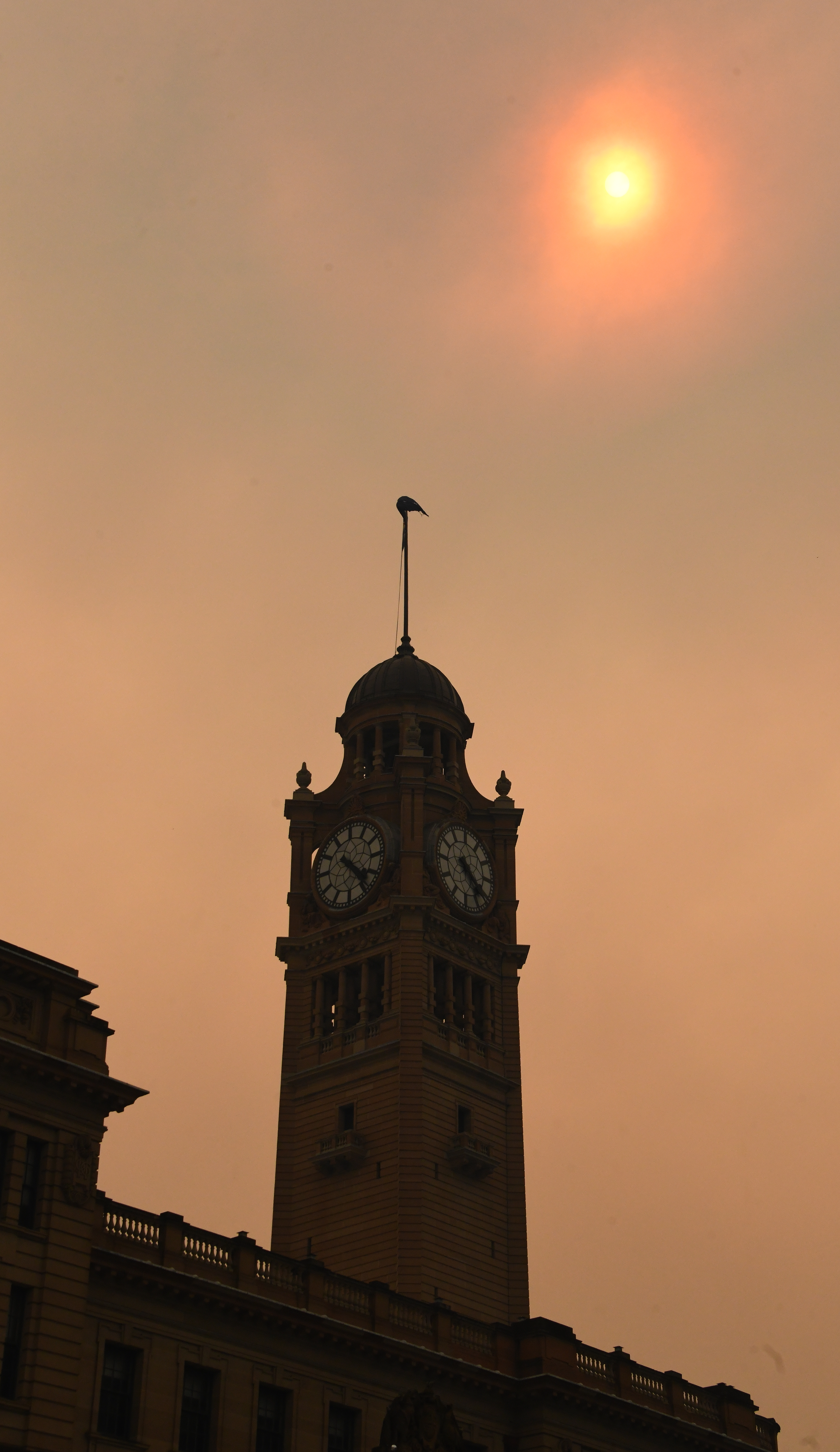 Smoke haze in Sydney from bushfires in Blue Mountains, sixty miles away